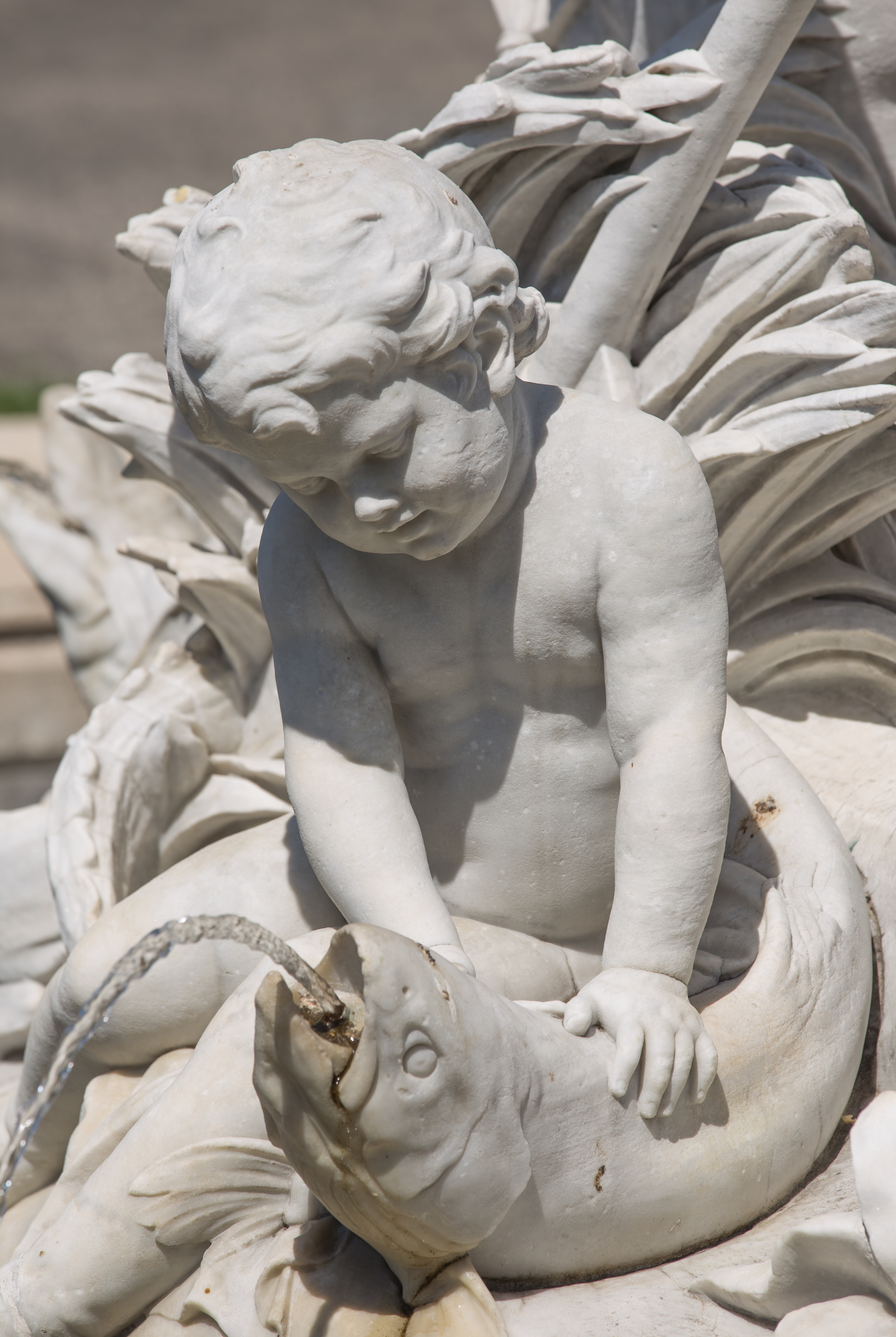 Fountain D Kunsthistorisches Museum, Artist: Edmund Paul Andreas Hofmann von Aspernburg. This is one of four Triton- and Najad fountains at the Maria-Theresien-Square in Vienna. The making of this work was supported by Wikimedia Austria. For other files made with the support of Wikimedia Austria, please see the category Supported by Wikimedia Österreich.